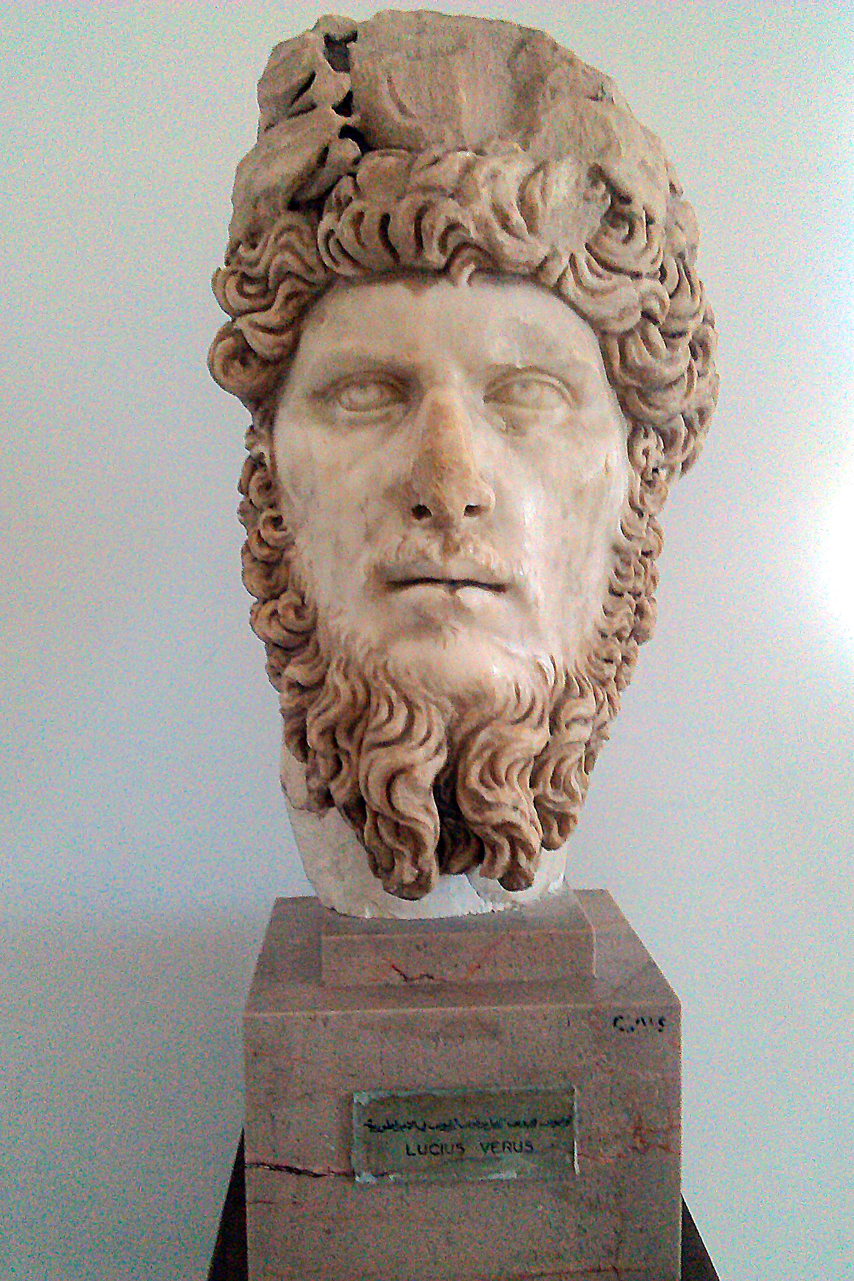 Lucius Verus bust (Bardo Museum)